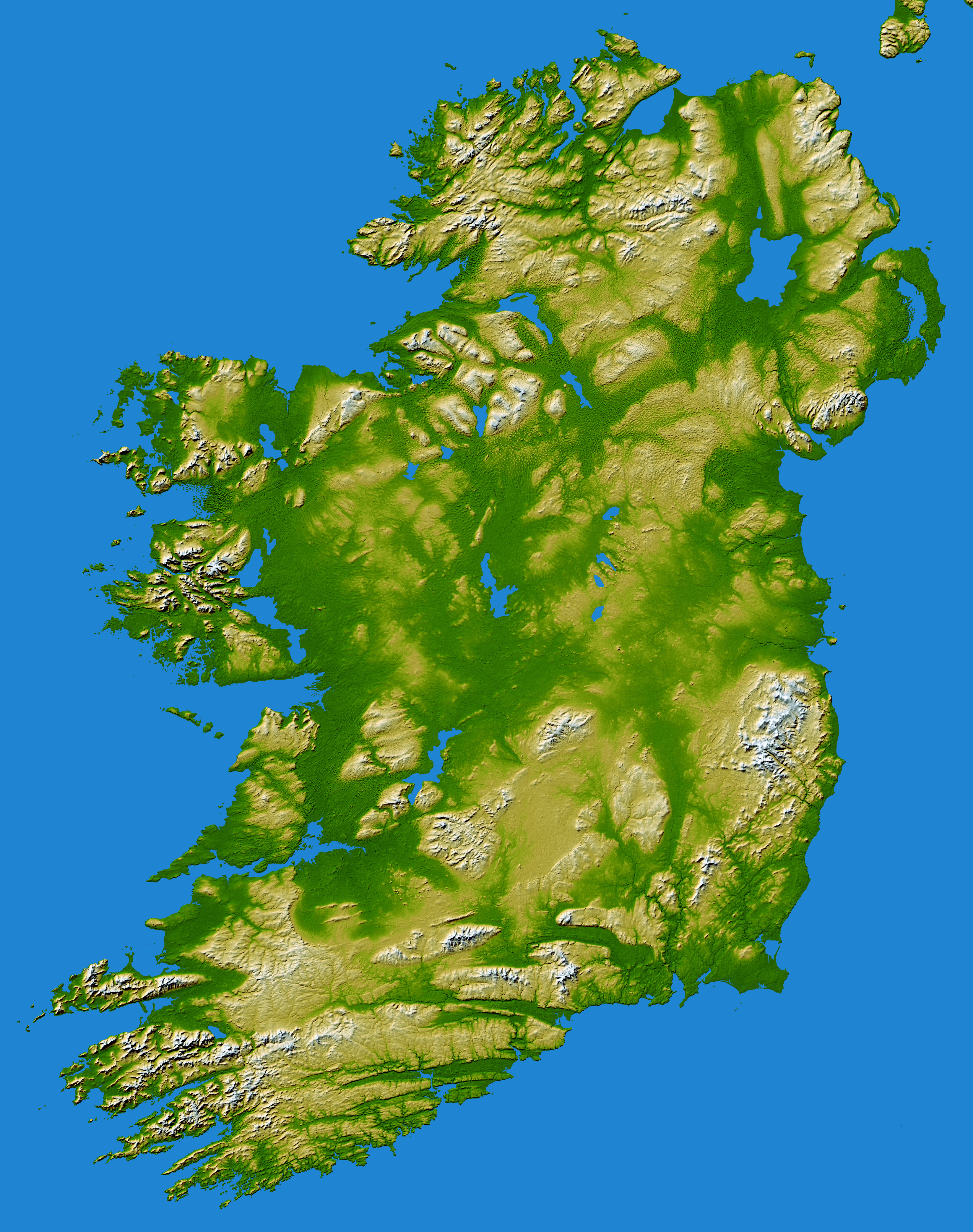 Elevation data used in this image were acquired by the Shuttle Radar Topography Mission aboard the Space Shuttle Endeavour, launched on Feb. 11, 2000. SRTM used the same radar instrument that comprised the Spaceborne Imaging Radar-C/X-Band Synthetic Aperture Radar (SIR-C/X-SAR) that flew twice on the Space Shuttle Endeavour in 1994. SRTM was designed to collect 3-D measurements of the Earth's surface. To collect the 3-D data, engineers added a 60-meter (approximately 200-foot) mast, installed additional C-band and X-band antennas, and improved tracking and navigation devices. The mission is a cooperative project between NASA, the National Geospatial-Intelligence Agency (NGA) of the U.S. Department of Defense and the German and Italian space agencies. It is managed by NASA's Jet Propulsion Laboratory, Pasadena, Calif., for NASA's Earth Science Enterprise, Washington, D.C.